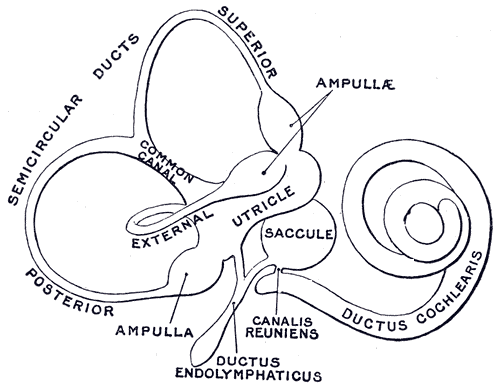 The membranous labyrinth. (Enlarged.)